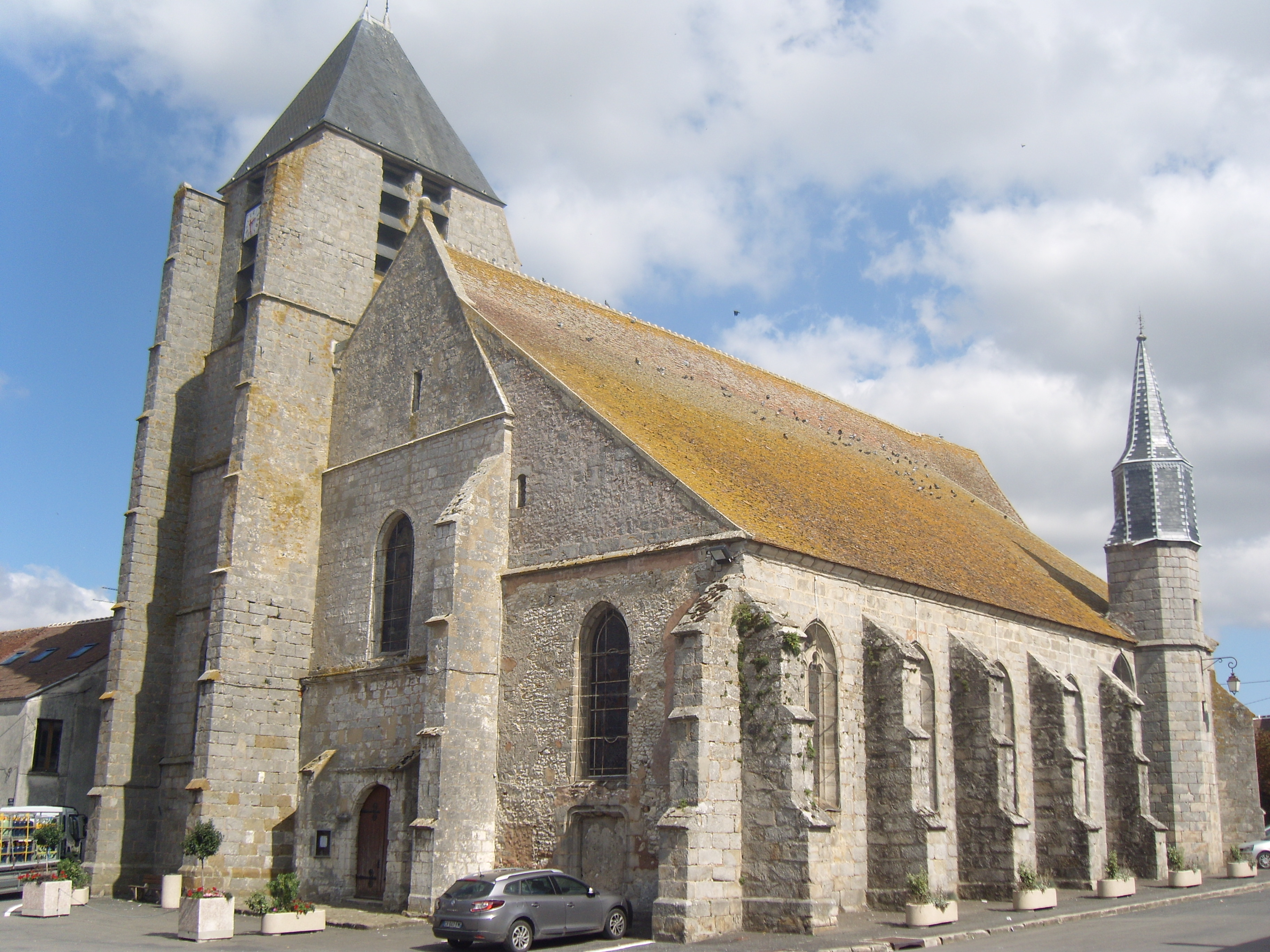 Saint-Aubin church of Jouy-le-Châtel